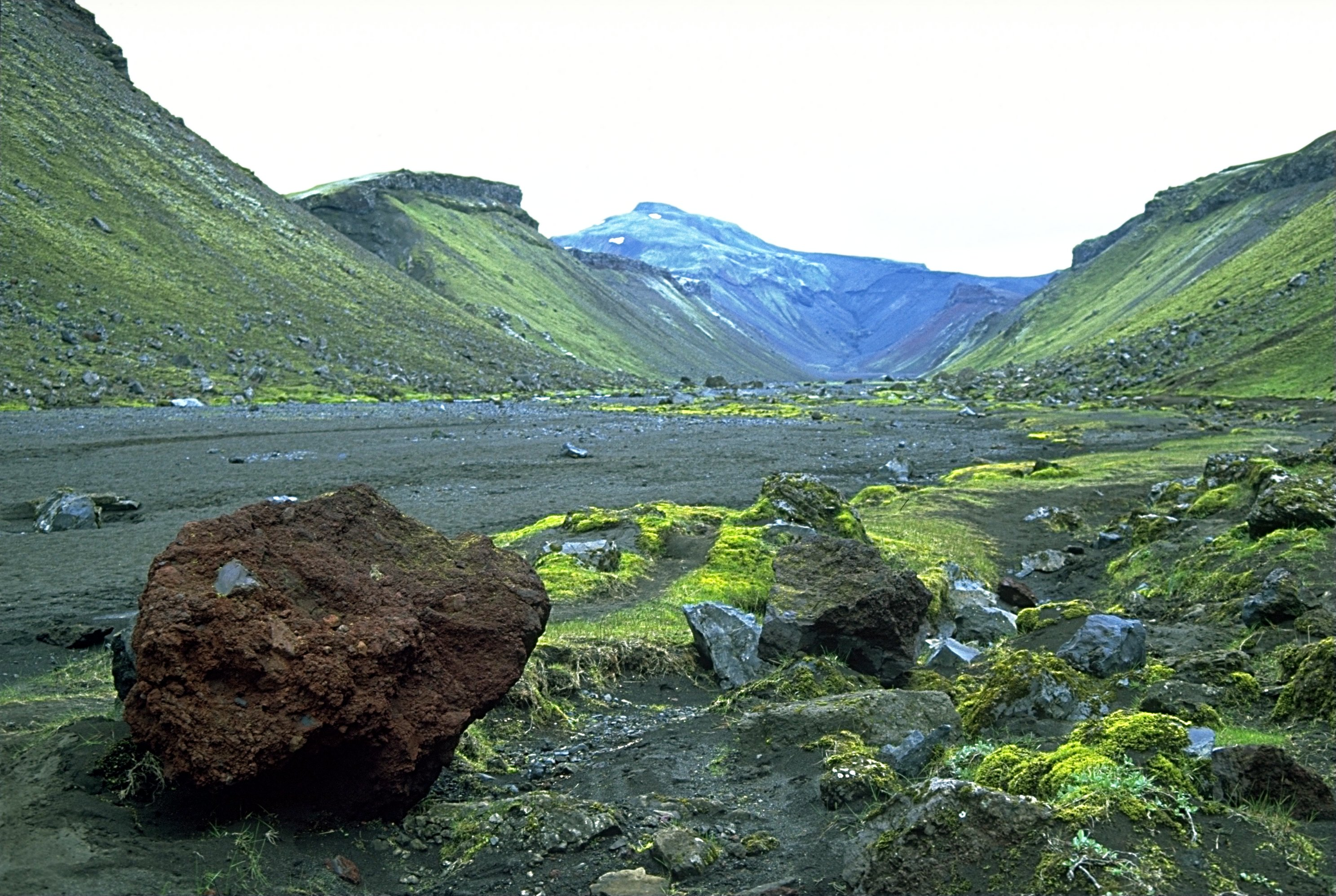 Eldgjá, Iceland Photo was taken using the following technique: Film: Fuji Velvia Lens: 2.8/28 Filter: Body: Minolta Dynax 7 Support: Manfrotto 190B Image with Information in English Bild mit Informationen auf Deutsch